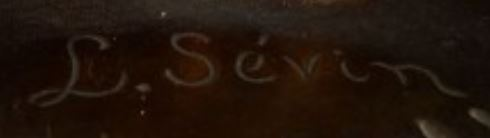 Lucille Sévin's signature